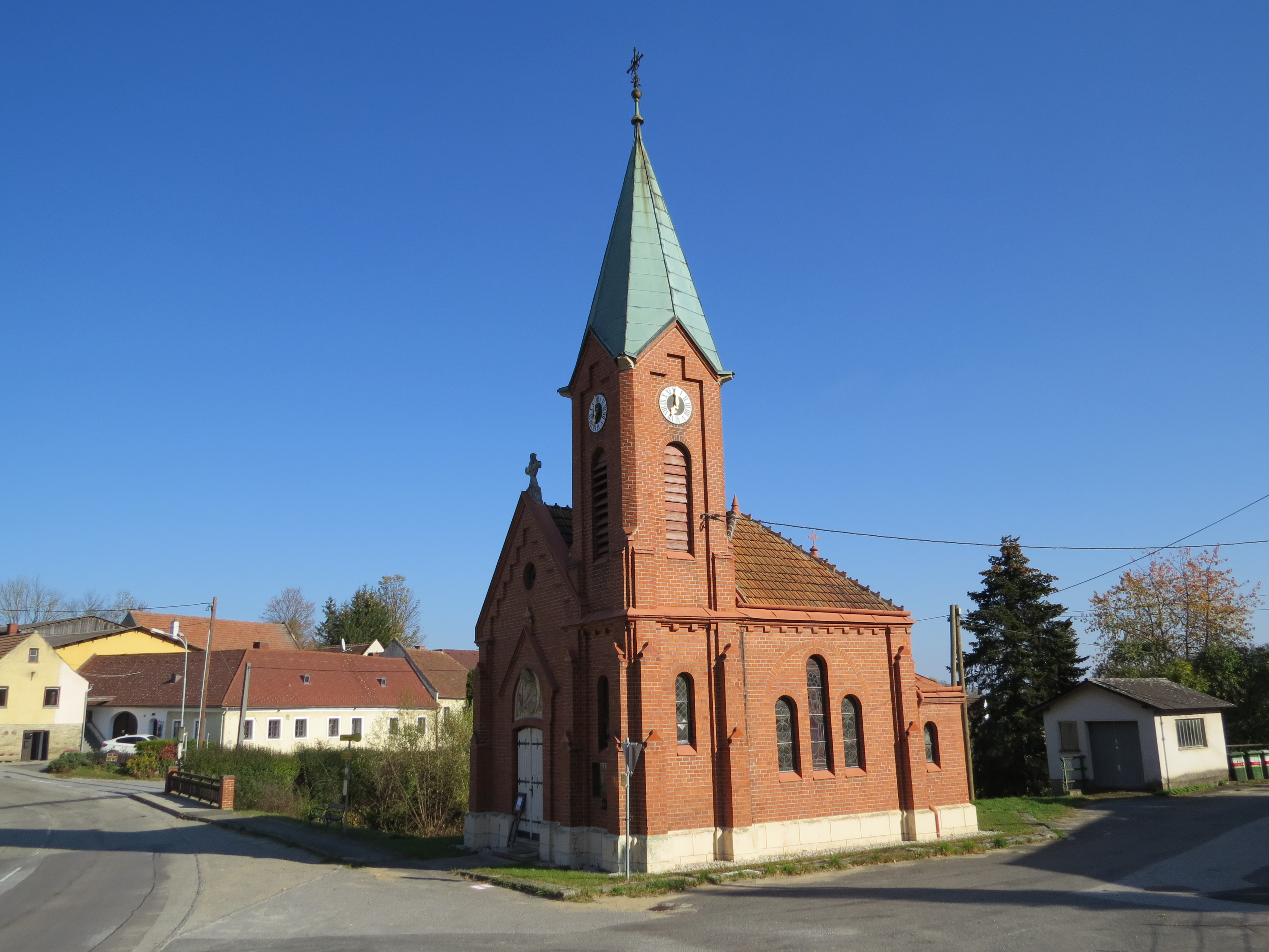 Chapel in Weinern, Groß-Siegharts, Austria